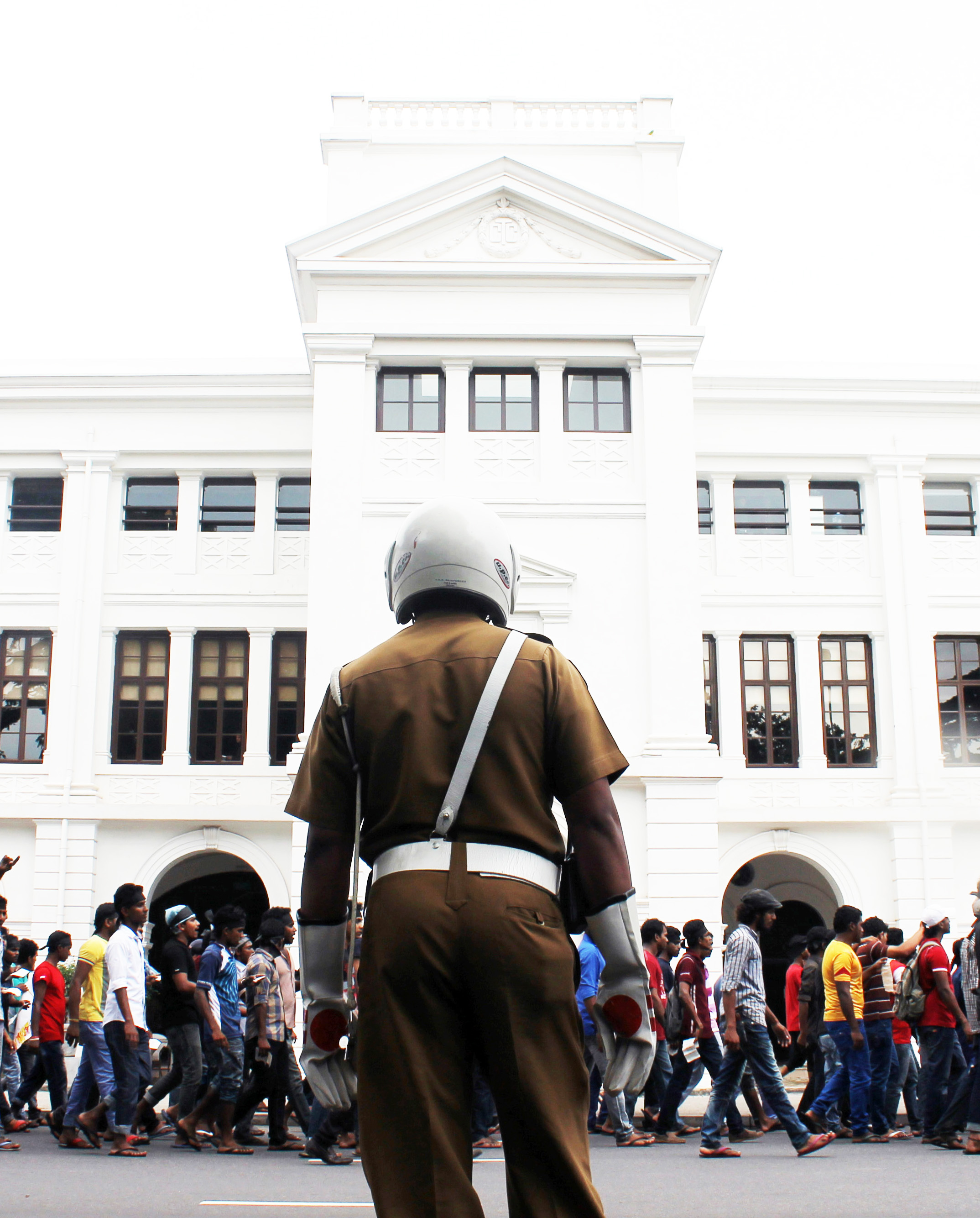 An image of a Sri Lanka traffic policeman in 2014